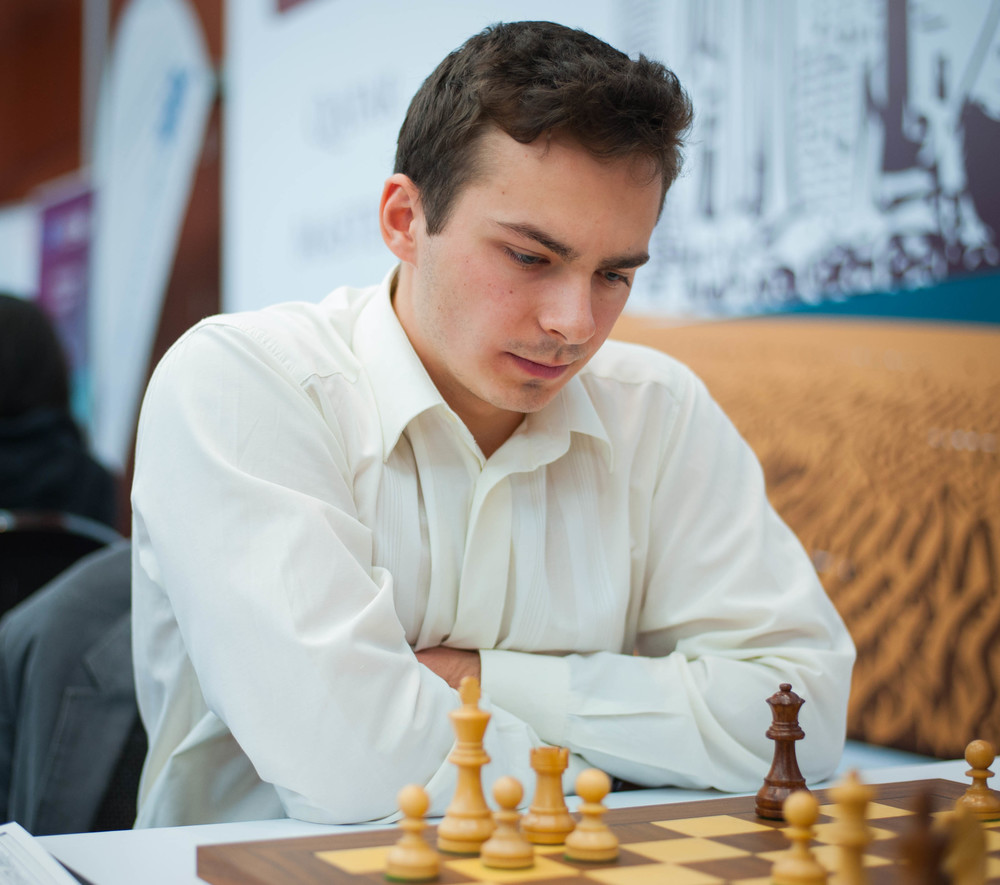 Alexander Ipatov at Qatar Masters Open 2015